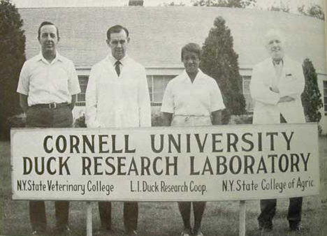 Cornell University's Duck Research Laboratory. From left to right: Dr. Wm. D. Urban, Director; Dr. Wm. F. Dean; Dr. Jessie Price; and Dr. Louis Leibovitz.